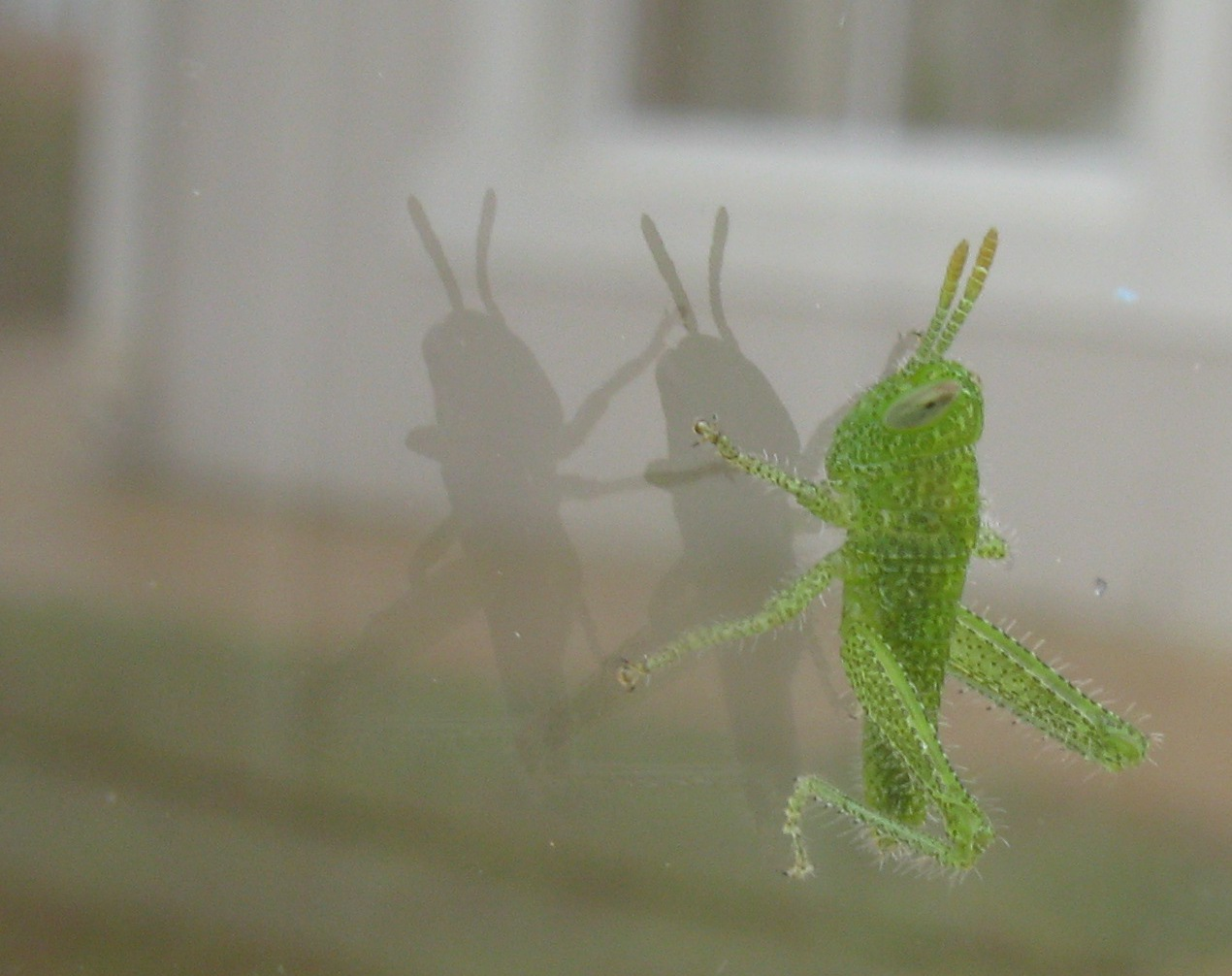 Acanthacris ruficornis South African Garden Locust nymph, probably second instar, about 1 cm long, lateral aspect, sitting on window glass